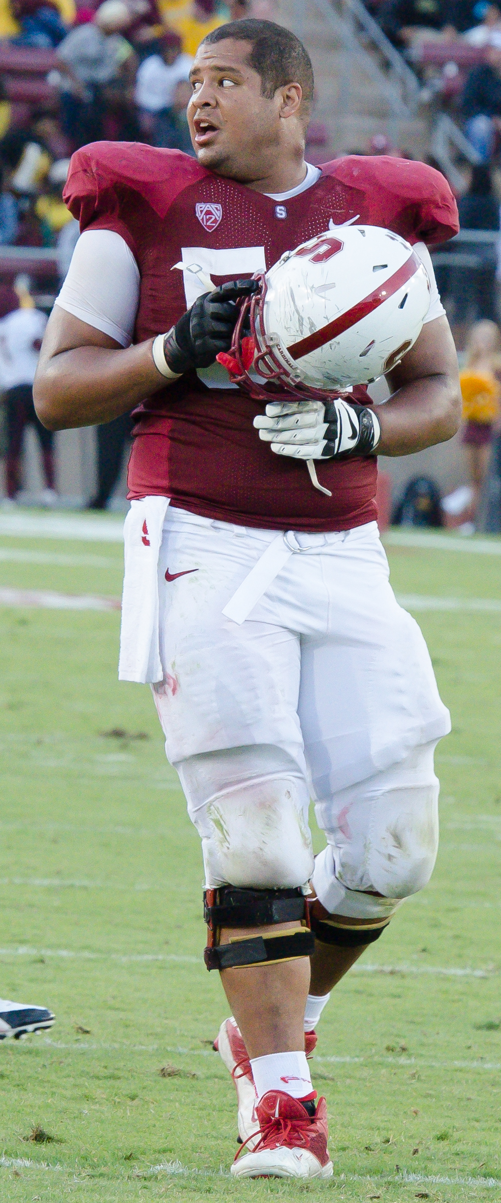 David Yankey left guard #54